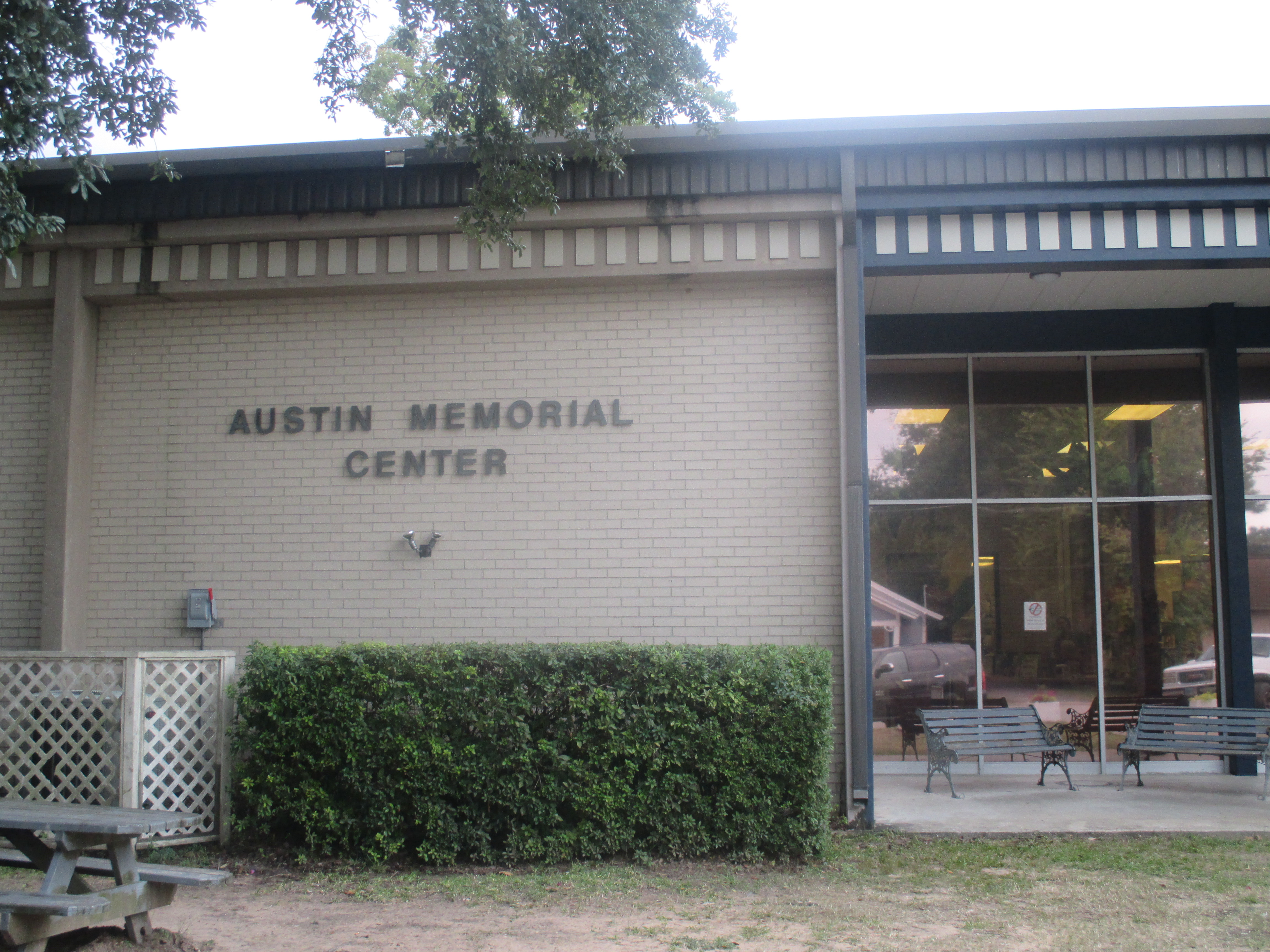 I took photo of Austin Memorial Center, the public library in Cleveland, TX, with a Canon camera.